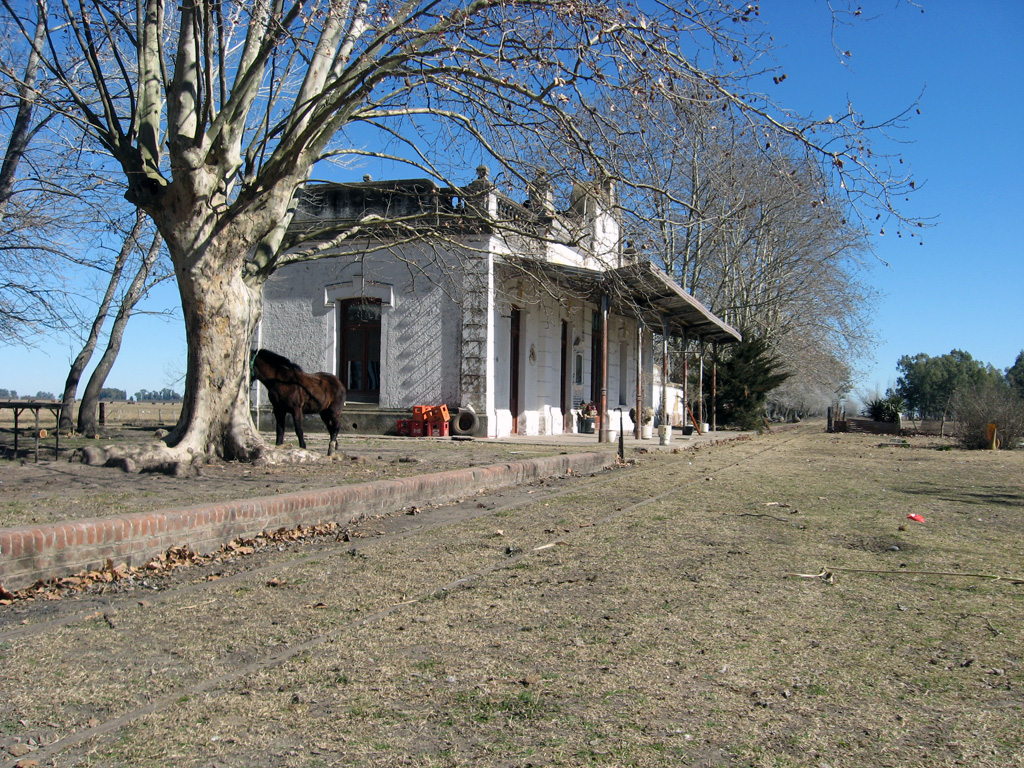 Tuyutí Train Station